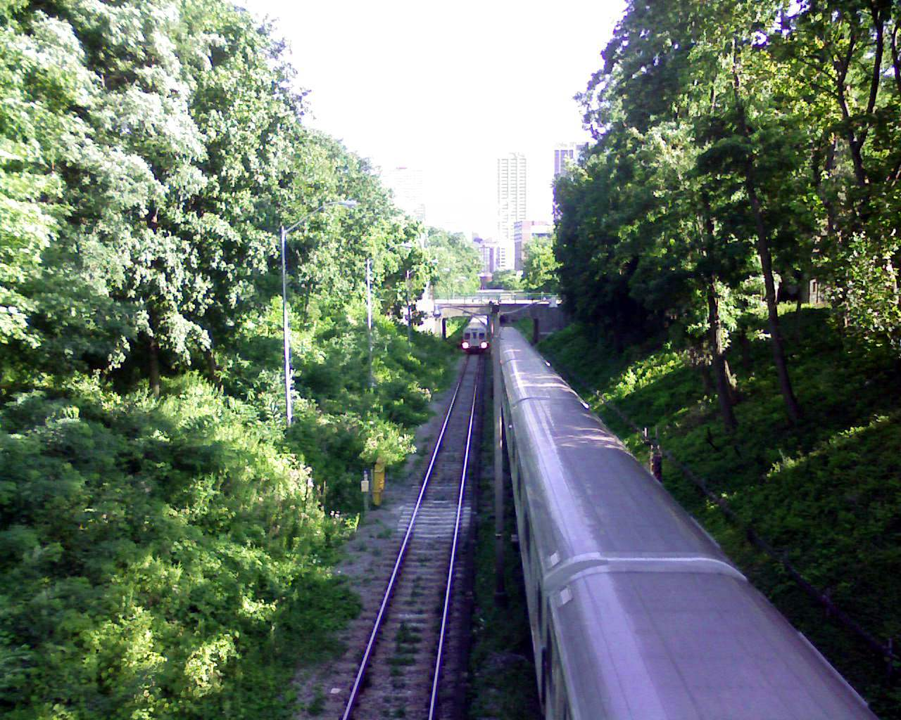 Looking south from Rowanwood Avenue towards Rosedale station in distance